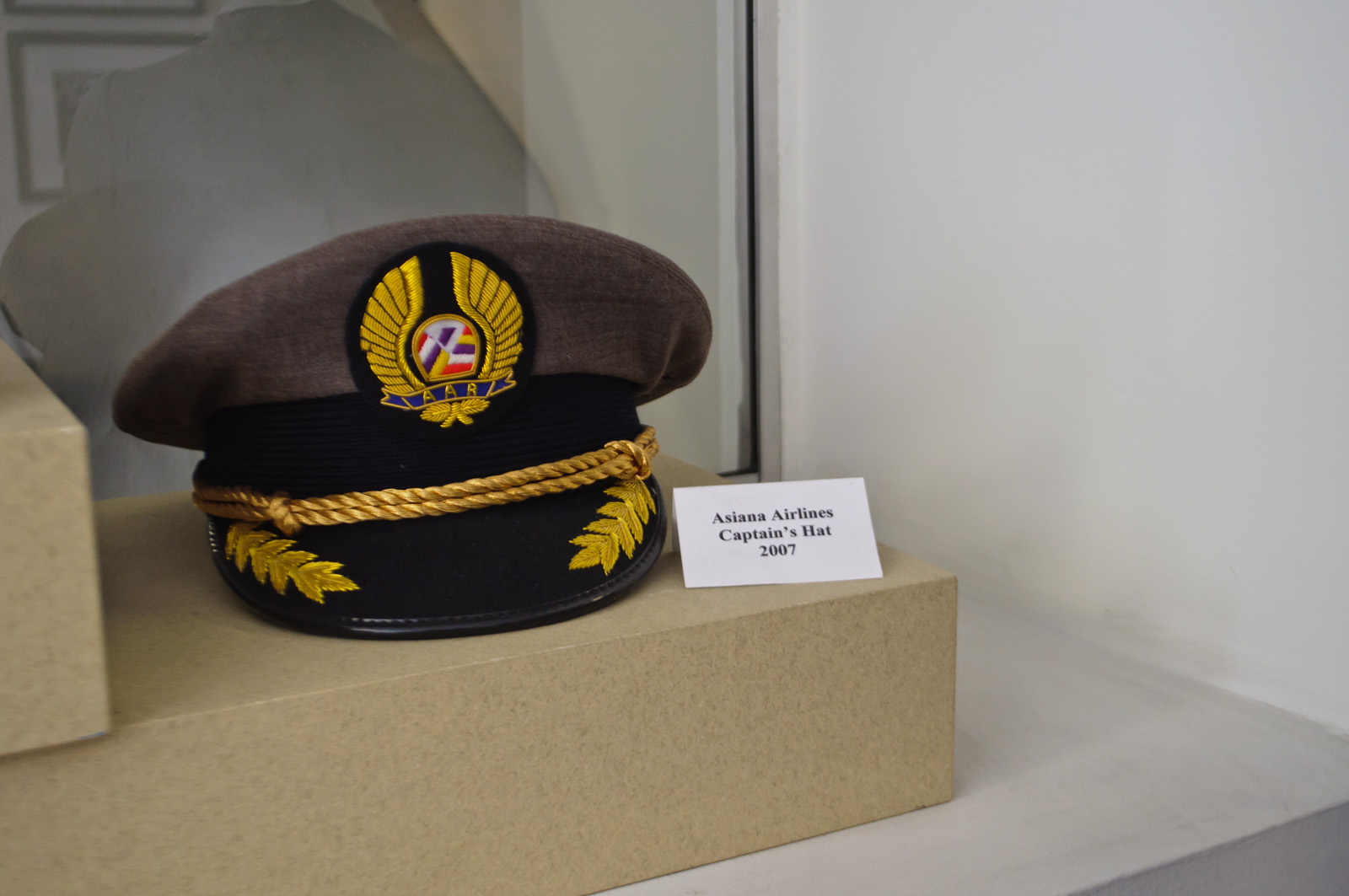 An Asiana Airlines captain's hat, circa 2007. Photo taken at Flight Path Museum at the south end of Los Angeles International Airport, covering the history of aviation, especially as it pertains to LAX.